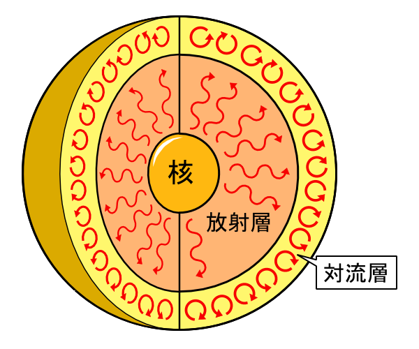 Cut view of the Sun: Core, Radiating zone, Convective zone